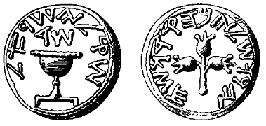 An illustration from the Encyclopaedia Biblica, a 1903 publication which is now in the public domain. Fig. D for article "Shekel". Image of a silver shekel from Judaea of about the 4th year of Simon the Hasmonaean (c. 70 AD - the year of the Jewish revolt). It says "year 4, Jerusalem-the-Holy", and weighs 220 grms. It depicts a chalice and a "lily".